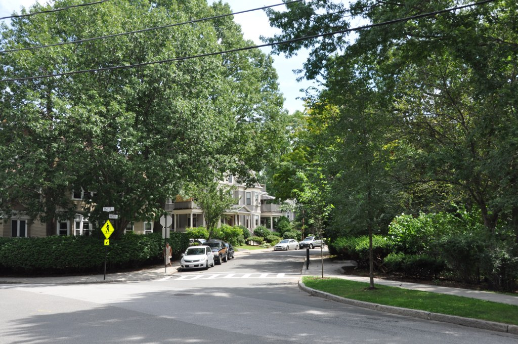 Waverly Street in Brookline, Massachusetts|, part of the Cypress-Emerson Historic District.